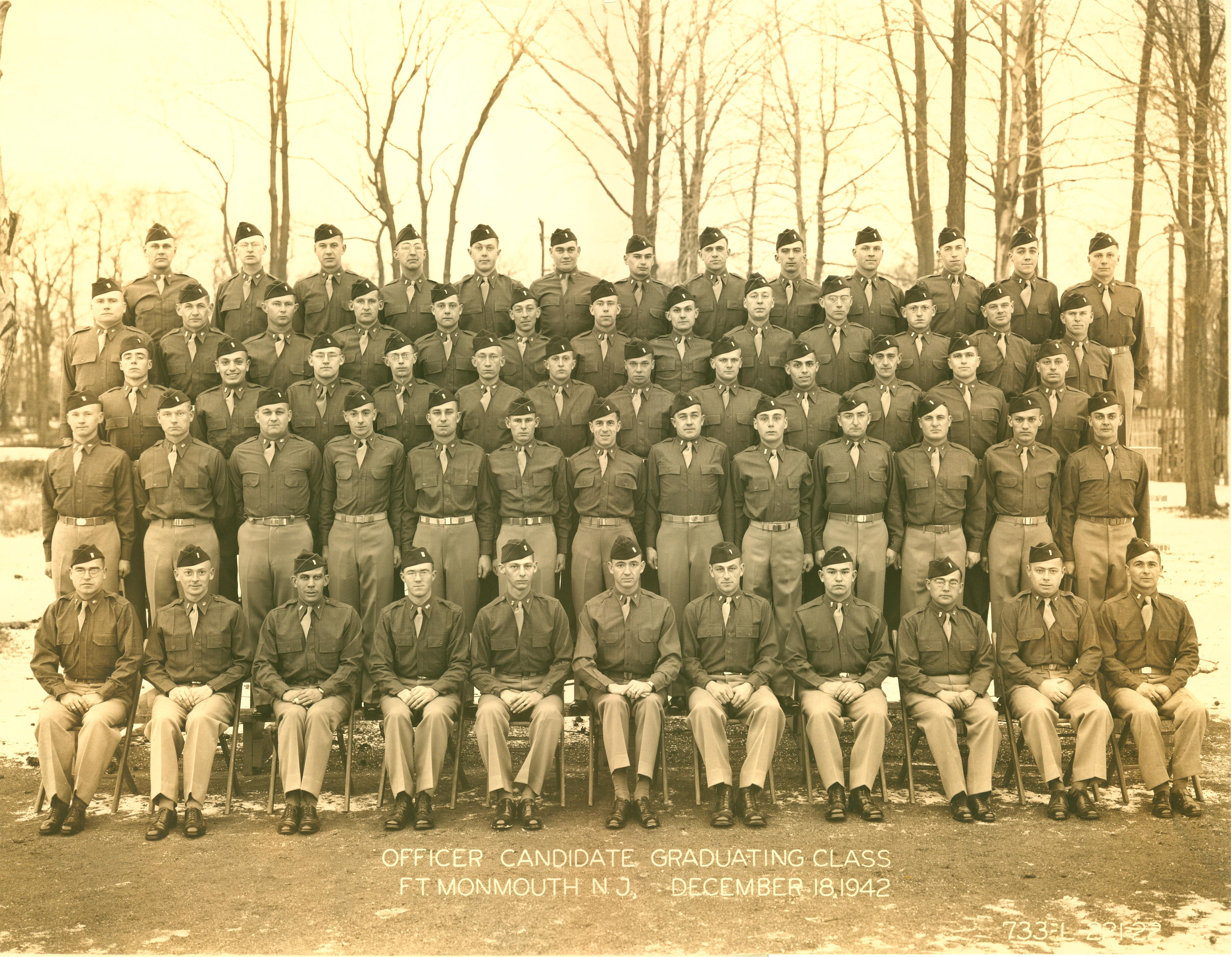 Officer Candidate Graduating Class Ft. Monmouth, N.J. December 18, 1942 U.S. Army Signal Corps Original size 11 X 14 in.